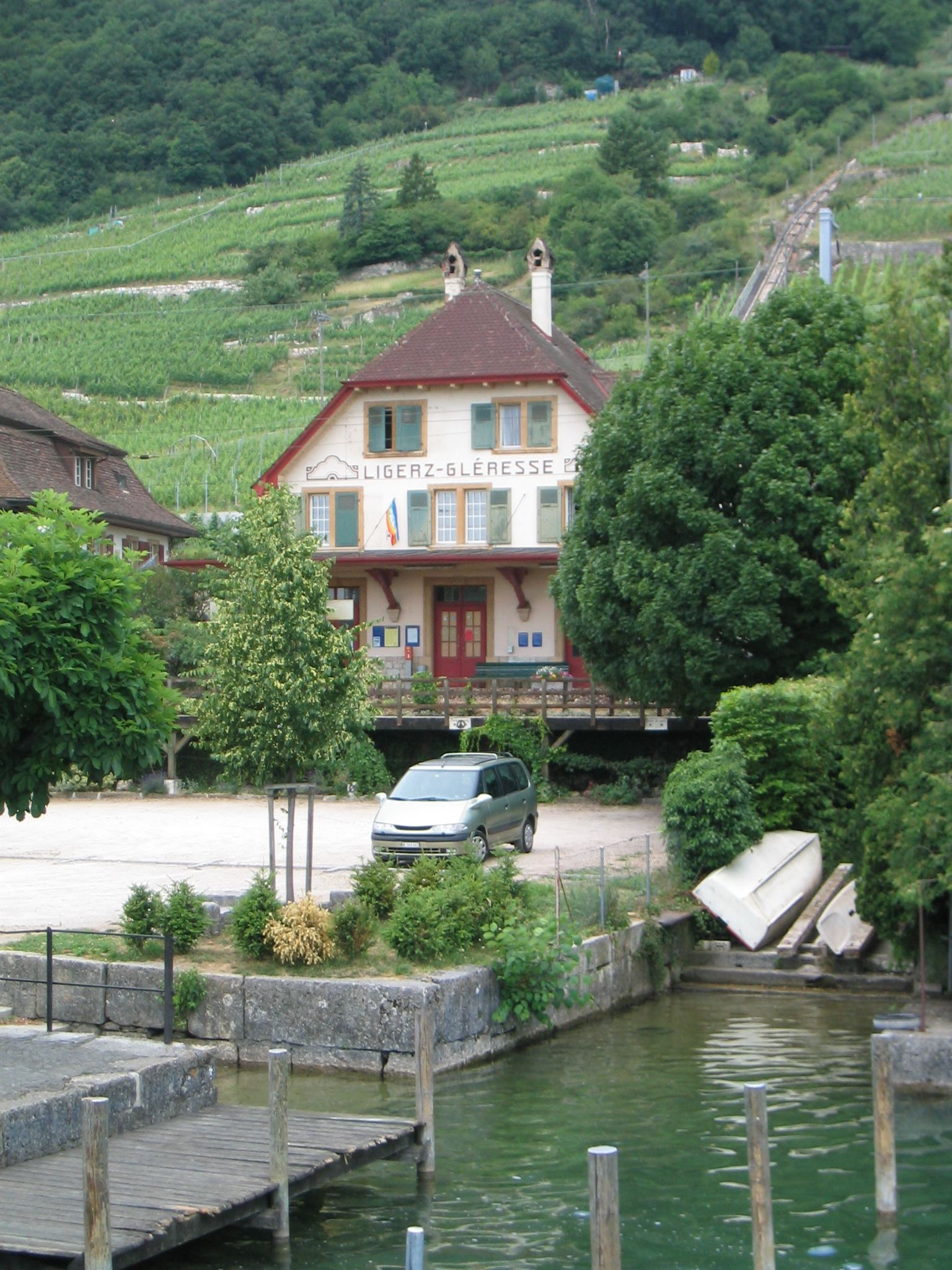 Ligerz train station with track of the Tessenberg funicular in the background, Switzerland